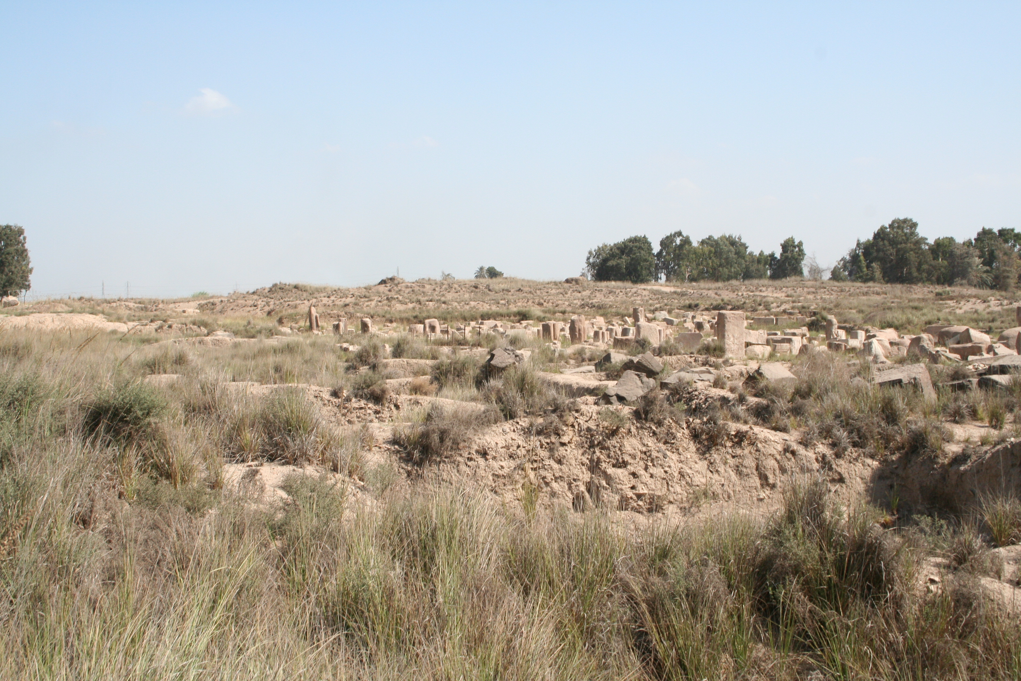 Bubastis (Tell Basta)